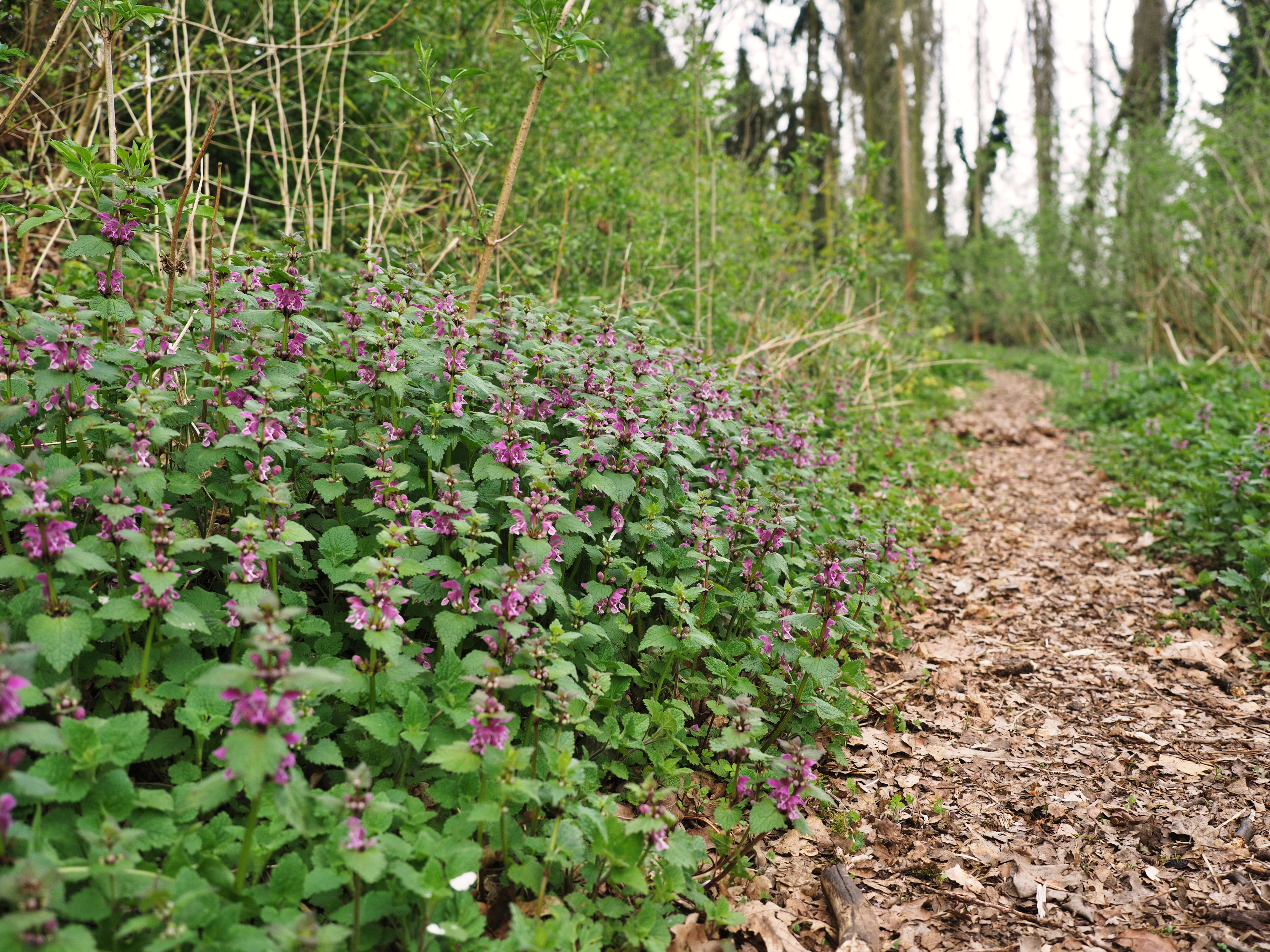 A bunch of Lamium maculatum by a path through a forest